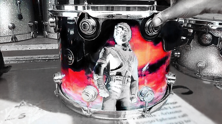 A piece of Jonathan Moffett's HISTory World Tour drum kit